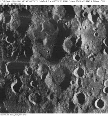 LO-IV-188M Mees is the moderate-sized crater below center. The shadows make it appear that it has a convex floor. Touching Mees on the north is 85-km Mees Y. The dark mare region on the floor of Mees Y (mentioned by Danny Caes) is clearer in a high Sun Clementine view. Straddling the east rim of Mees Y is 36-km Mees A. The other named satellite features in this view are 26-km Mees J (to the southeast of Mees), 19-km Sundman V (beyond Mees J in the lower right corner) and 24-km Nobel B (touching the left margin in the upper left corner). The remaining features are not named.